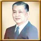 Jose Yulo (1894-1987), Secretary of Justice of the Philippines